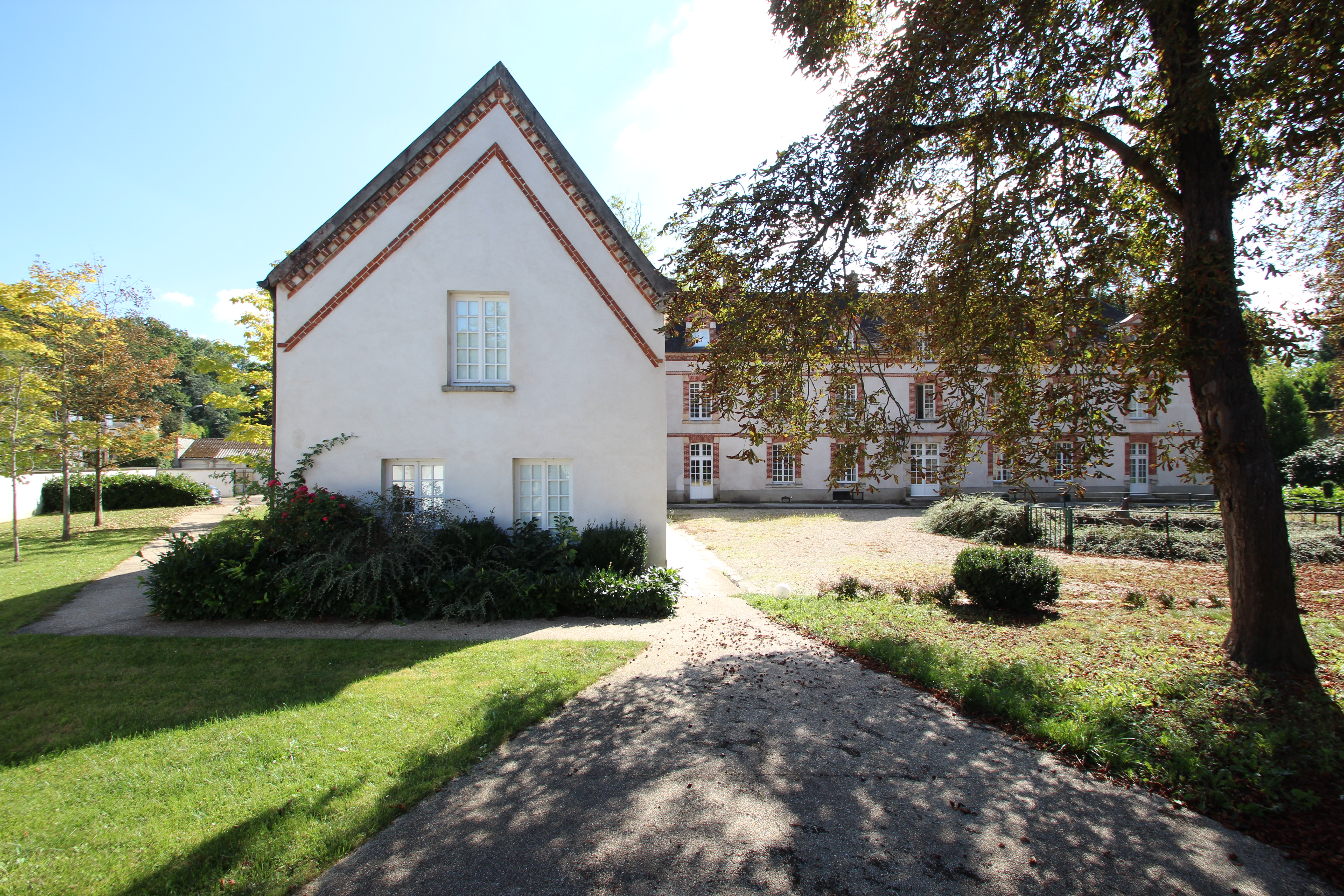 Basses-Loges priory in Avon, Seine-et-Marne, France. . Object location48° 25′ 10.92″ N, 2° 44′ 08.88″ E